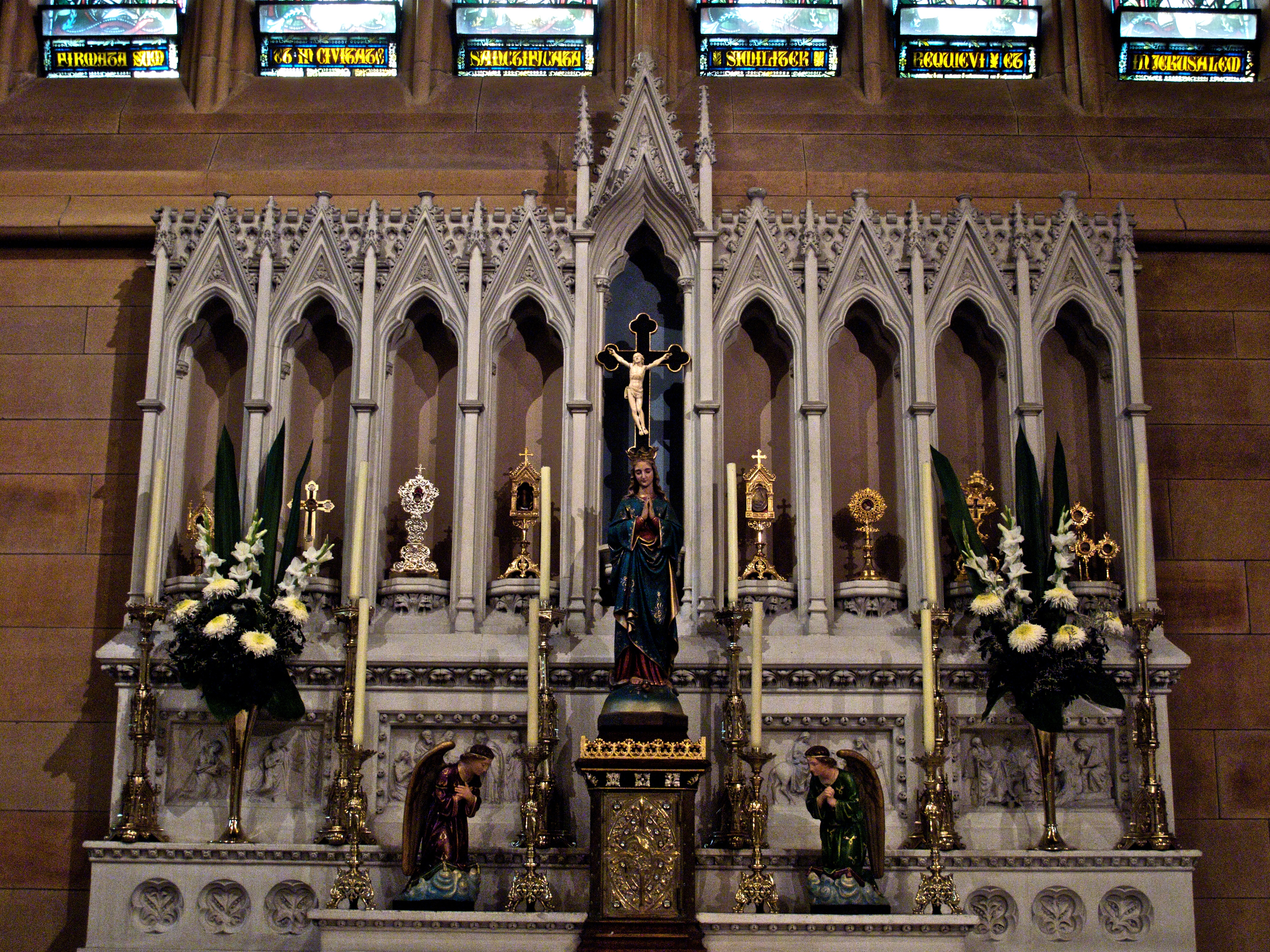 St Mary's Cathedral, Sydney